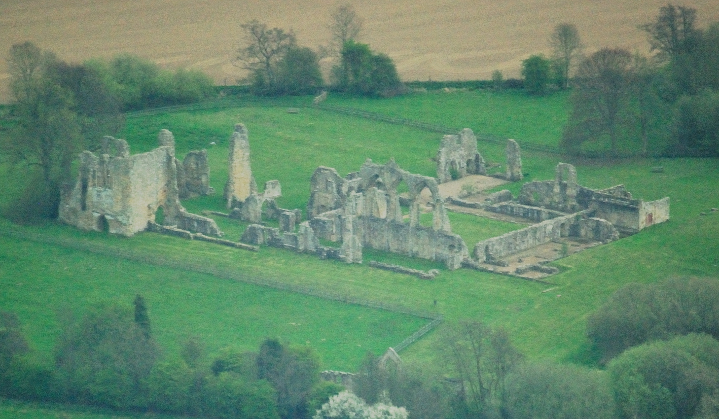 Aerial view of the Bayham Abbey ruins near Frant, East Sussex, England. Nikon D60 f=200mm f/5.6 at 1/2000s ISO 800. Processed using Nikon ViewNX 1.5.2 and GIMP 2.6.6.